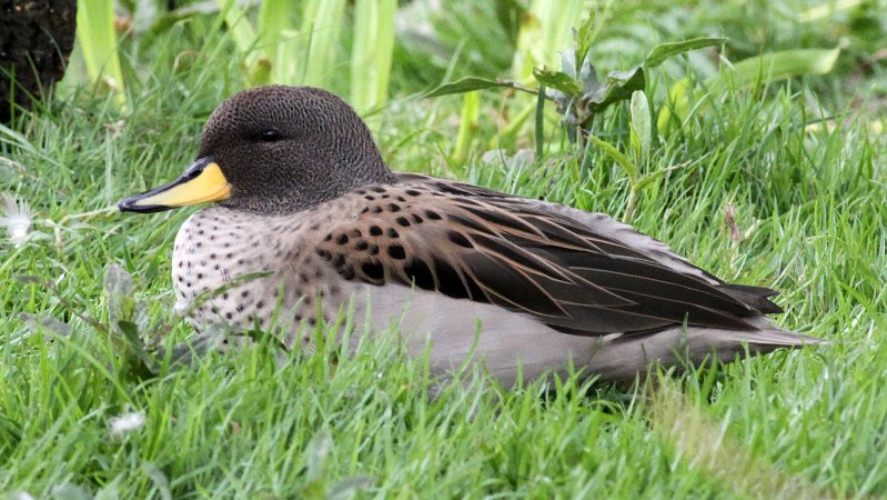 Sharp-winged Teal, subspecies of the Yellow-billed Pintail (Anas flavirostris oxyptera) - originally uploaded as Yellow-billed Pintail (Anas georgica) This image was created by Ken Billington. If you are interested in a high resolution copy of this image, please contact the author Ken Billington in order to negotiate conditions of use. Do not copy this image illegally by ignoring the terms of the license below, as it is not in the public domain. If you would like special permission to use, license, or purchase the image please contact me to negotiate terms. More free images can be found on Ken Billington's Bird & Wildlife Photography.